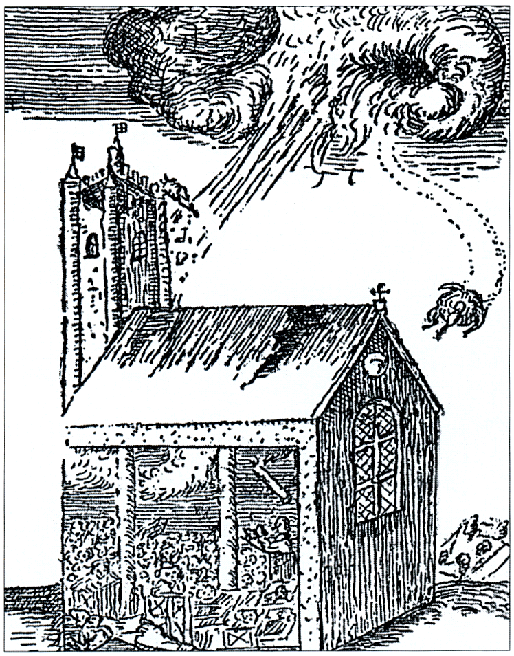 A contemporary woodcut of The Great Thunderstorm, Widecombe, Dartmoor, Devon, England which occurred in 1638.